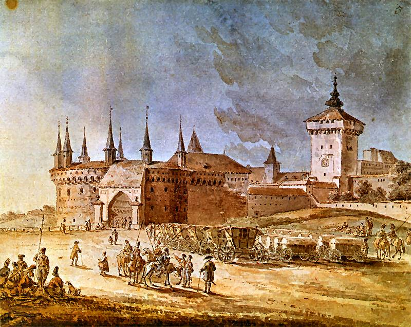 Barbican in Cracow in 1799